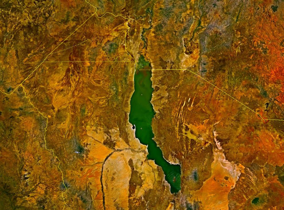 Lake Turkana, Kenya and Ethiopia. satellite image. The yellow lines denote the borders.